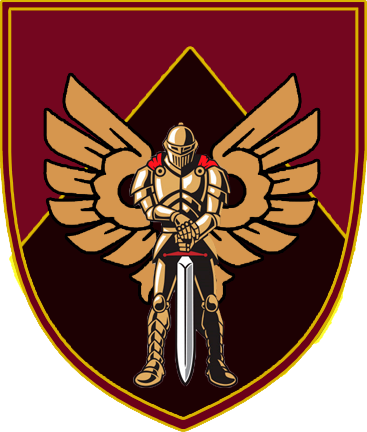 Shoulder Sleeve Insignia of 46th Independent Air-Assault Brigade